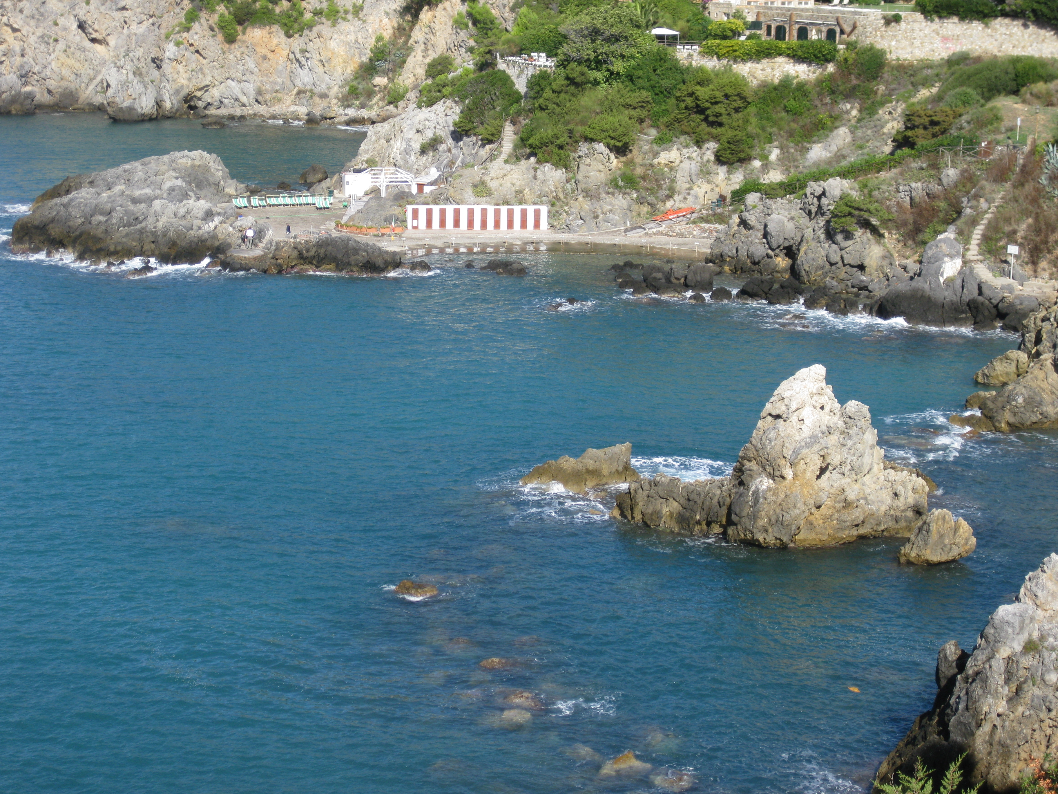 Talamone (Italy)